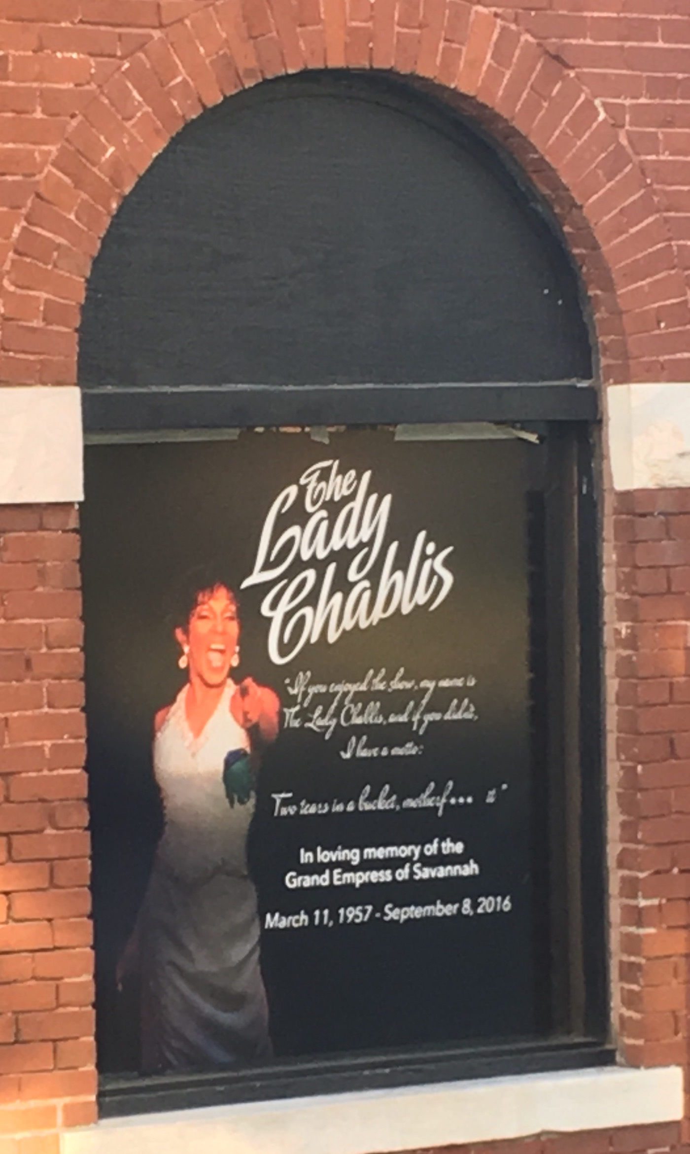 Lady Chablis memorial poster at Club One